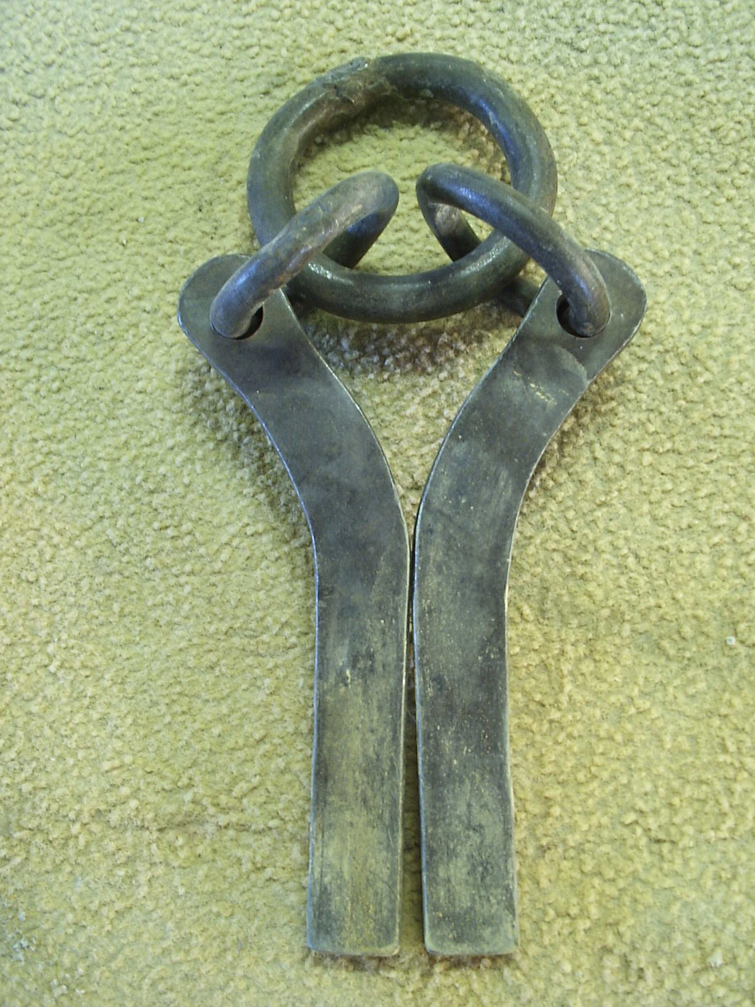 Chain-linked Lewis